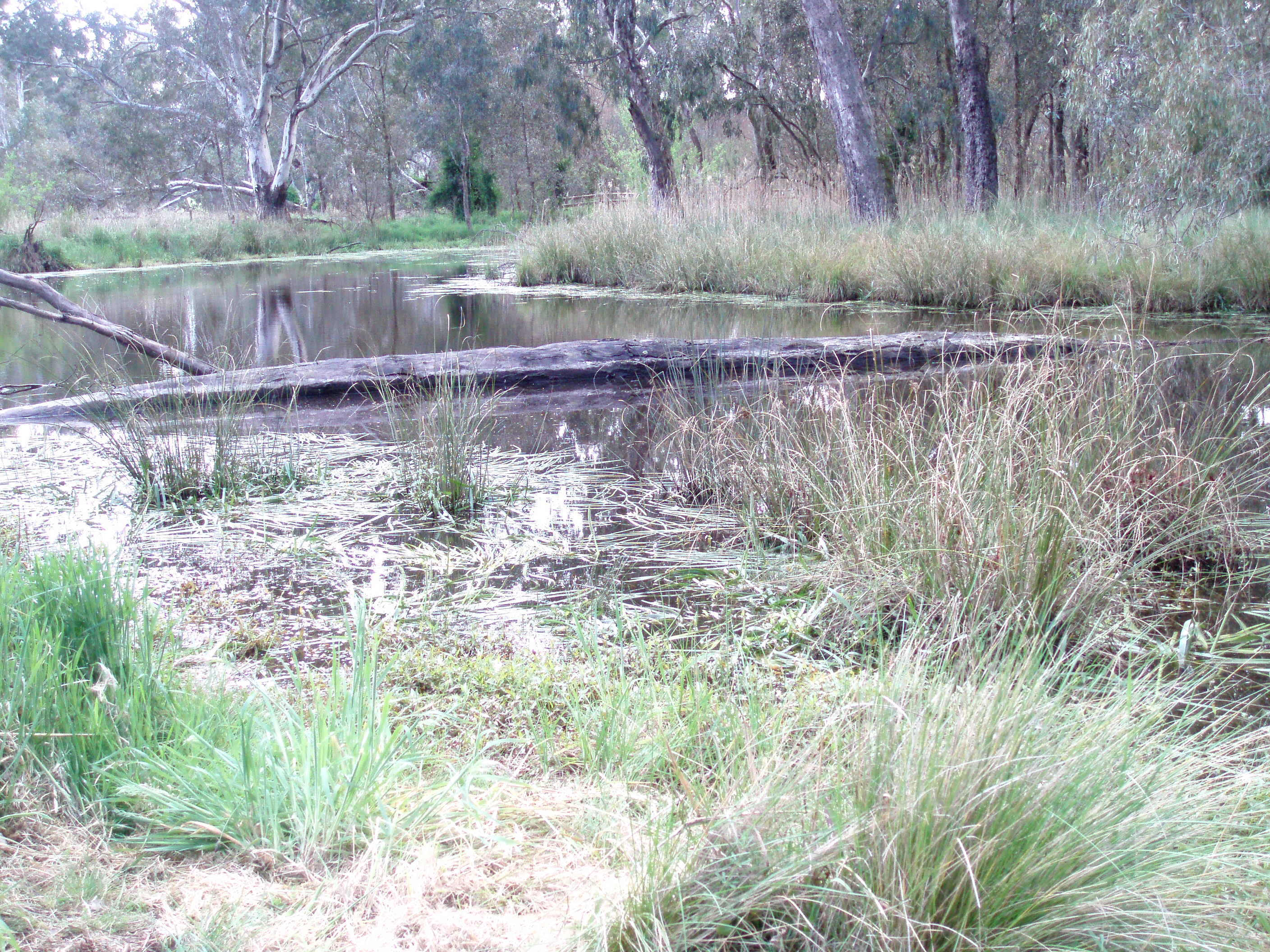 A bend in the Muddy Creek.